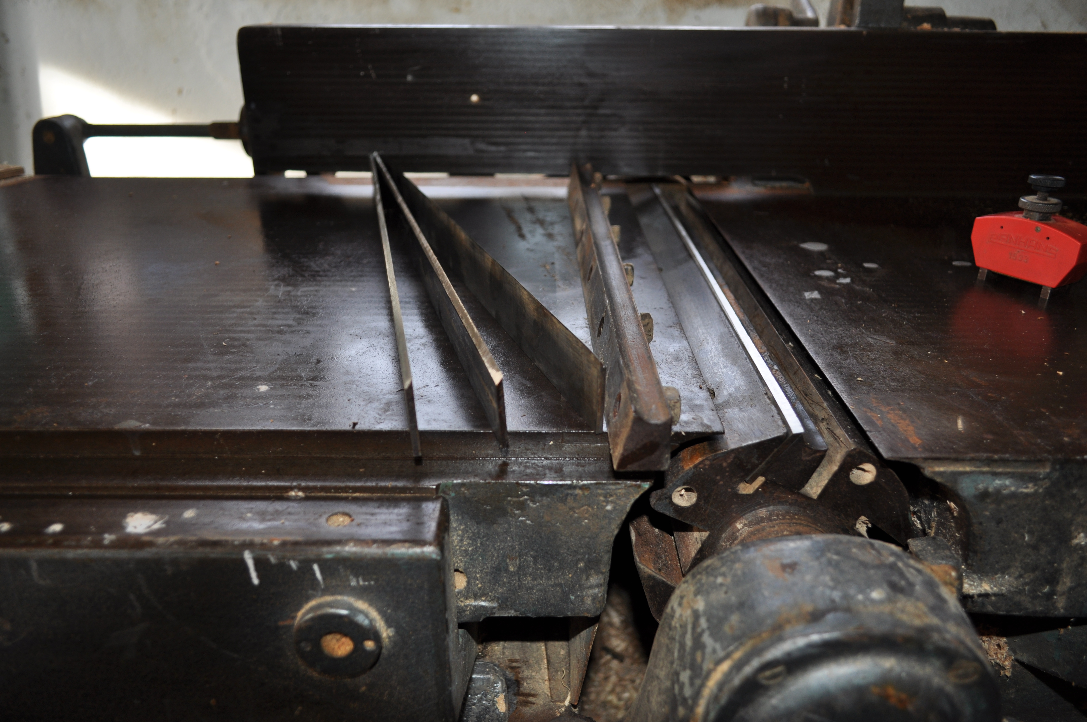 Cutter head with four knives for woodworking - Planers, jointers and thicknessers. Messerwelle mit vier Messer für Abricht oder Dickenhobelmaschine